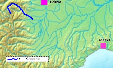 Ænglisc: Chisone location